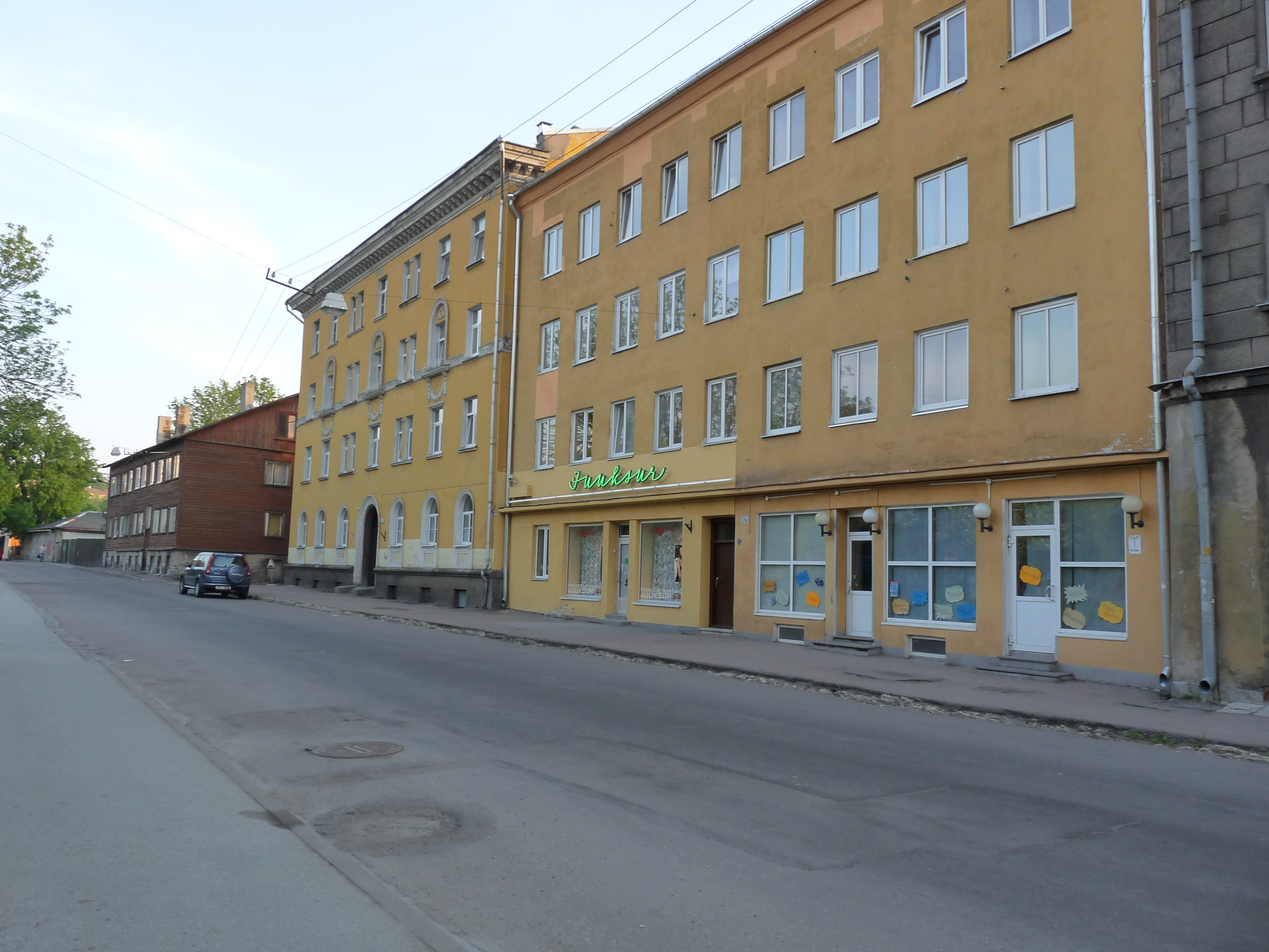 Stalin-era apartment building on Kalamaja street